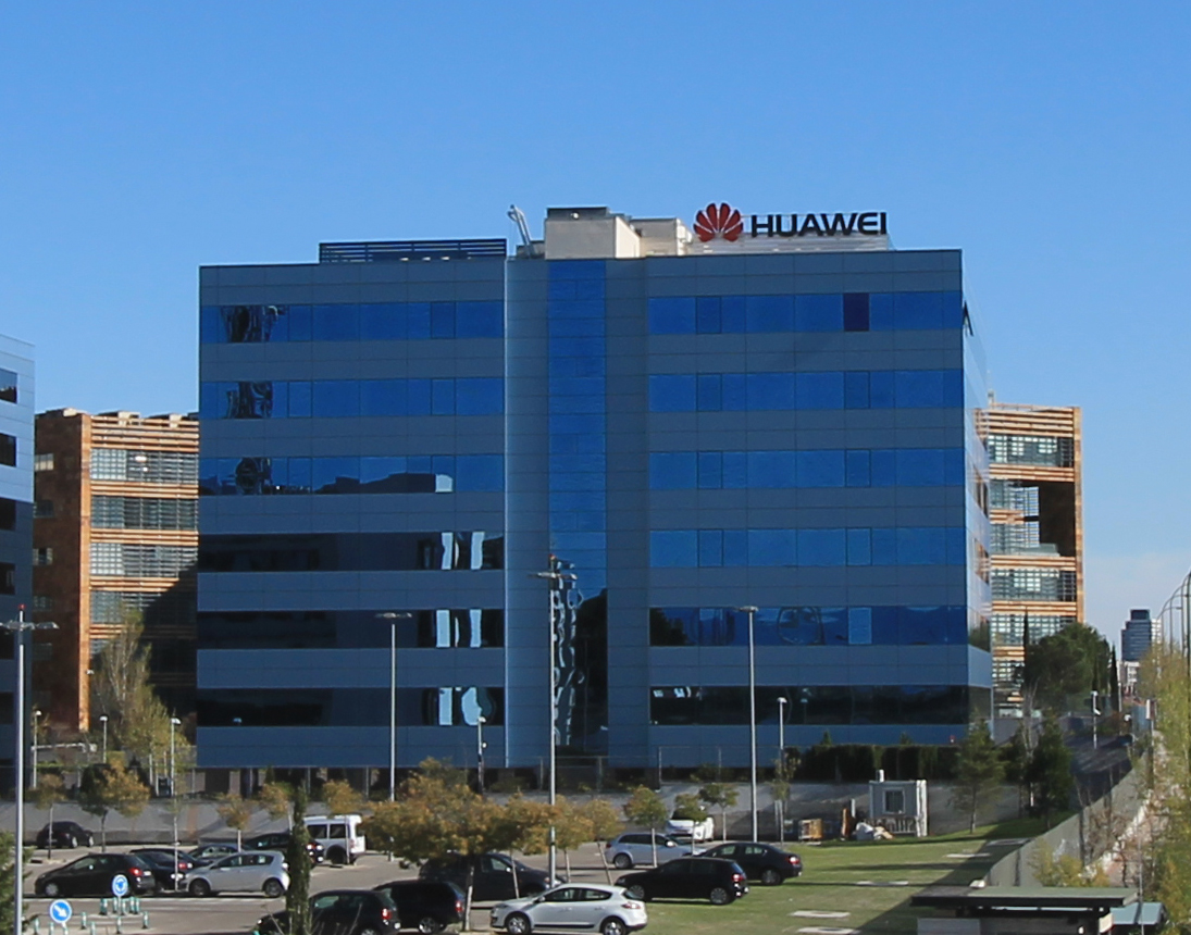 Façade of Huawei offices in Madrid (Spain).